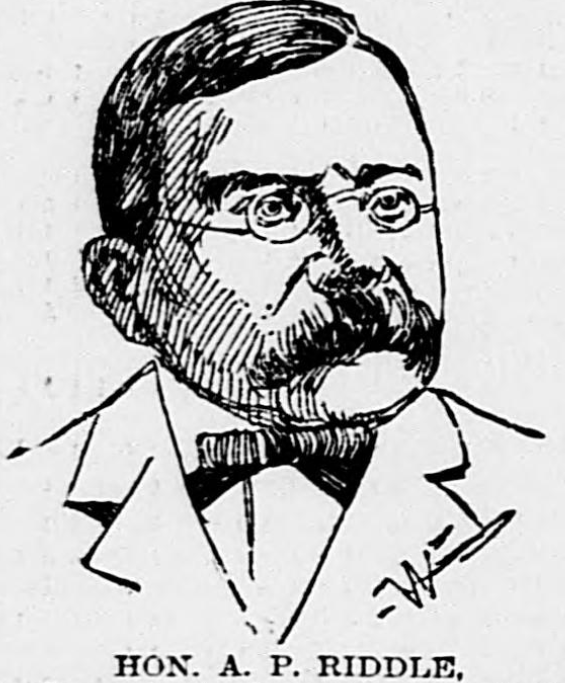 Sketch of Alexander P. Riddle, former lieutenant governor of Kansas, from the "Kansas City Journal", August 26, 1896